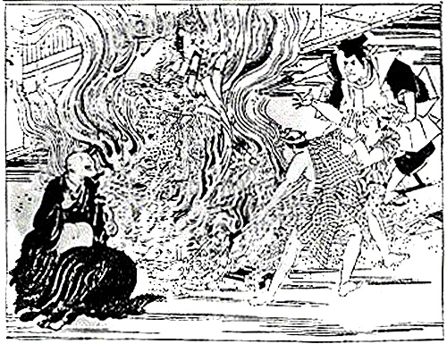 Burning of sutras and religious implements